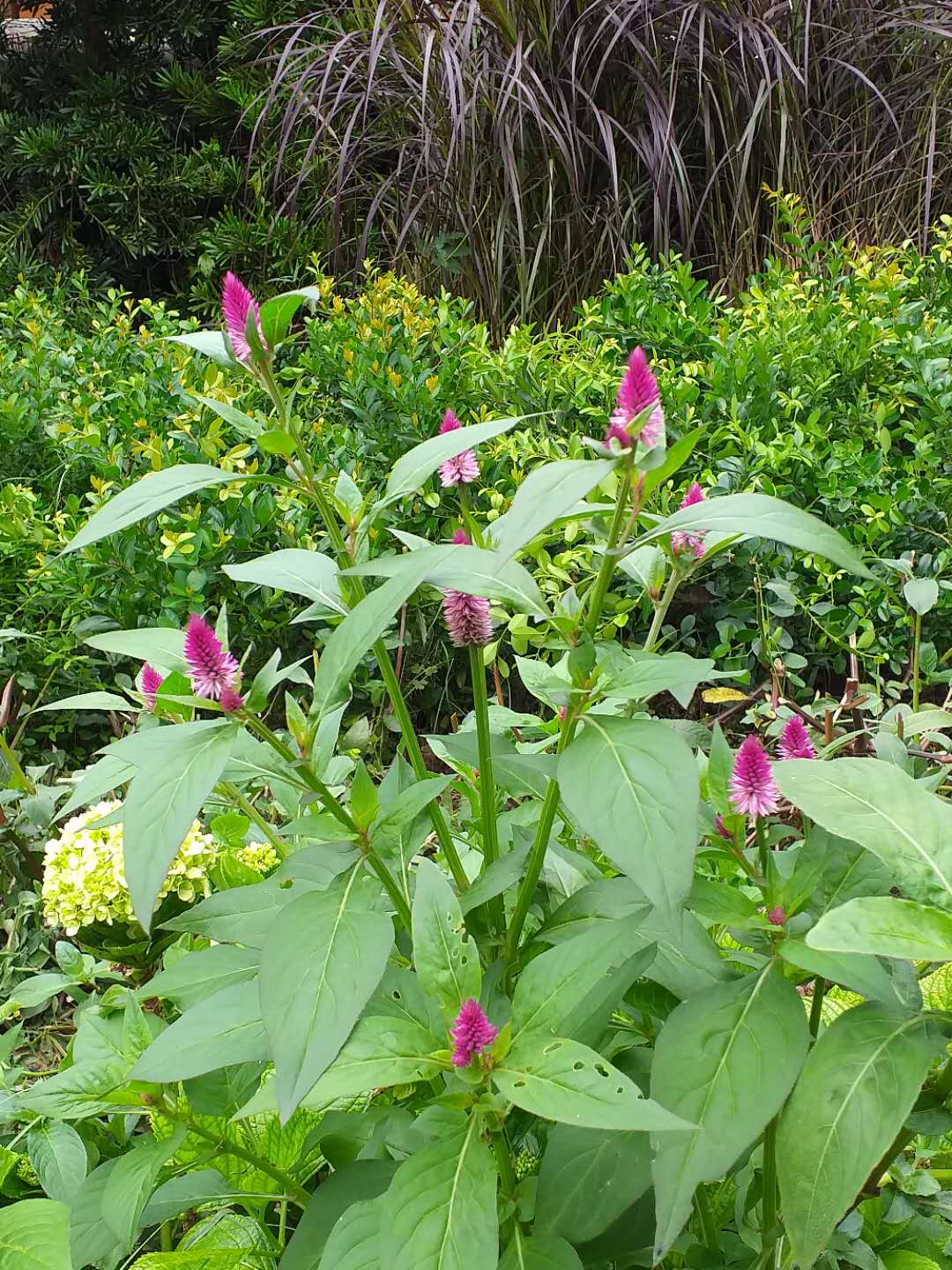 Ornemental plant. 2018 Taichung World Flora Exposition, Taiwan.